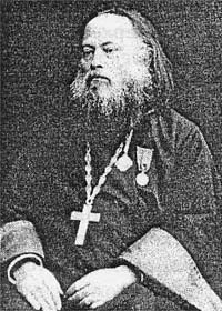 Elijah Livansky (Ilya Vasilyevich Livansky, born 27 July 1854 - died 1920) - priest, local historian, Prior of Epiphany Cathedral in Oryol, Russia, from 1903.